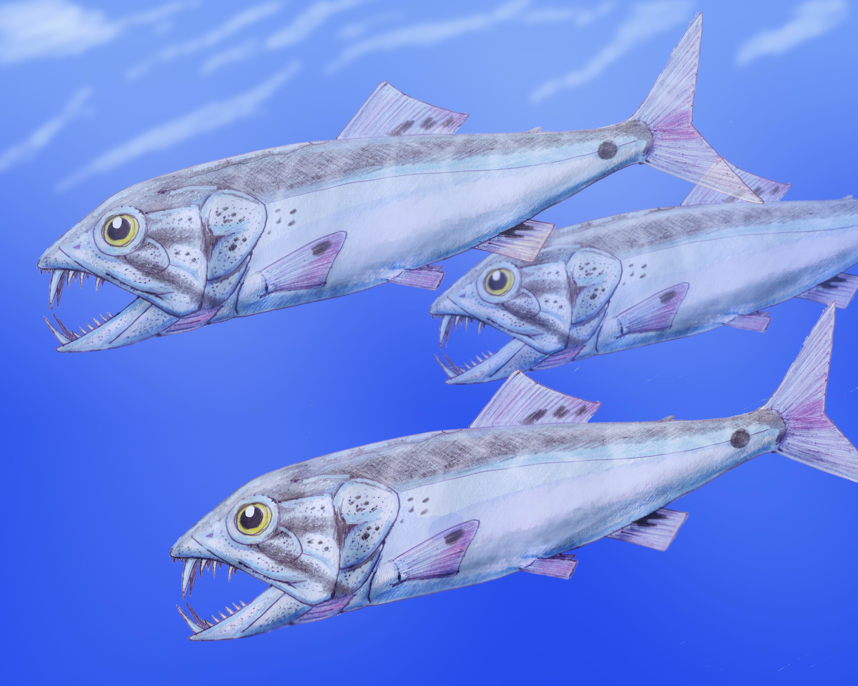 Enchodus petrosus from Western Interior Cretaceous Sea of Kansas